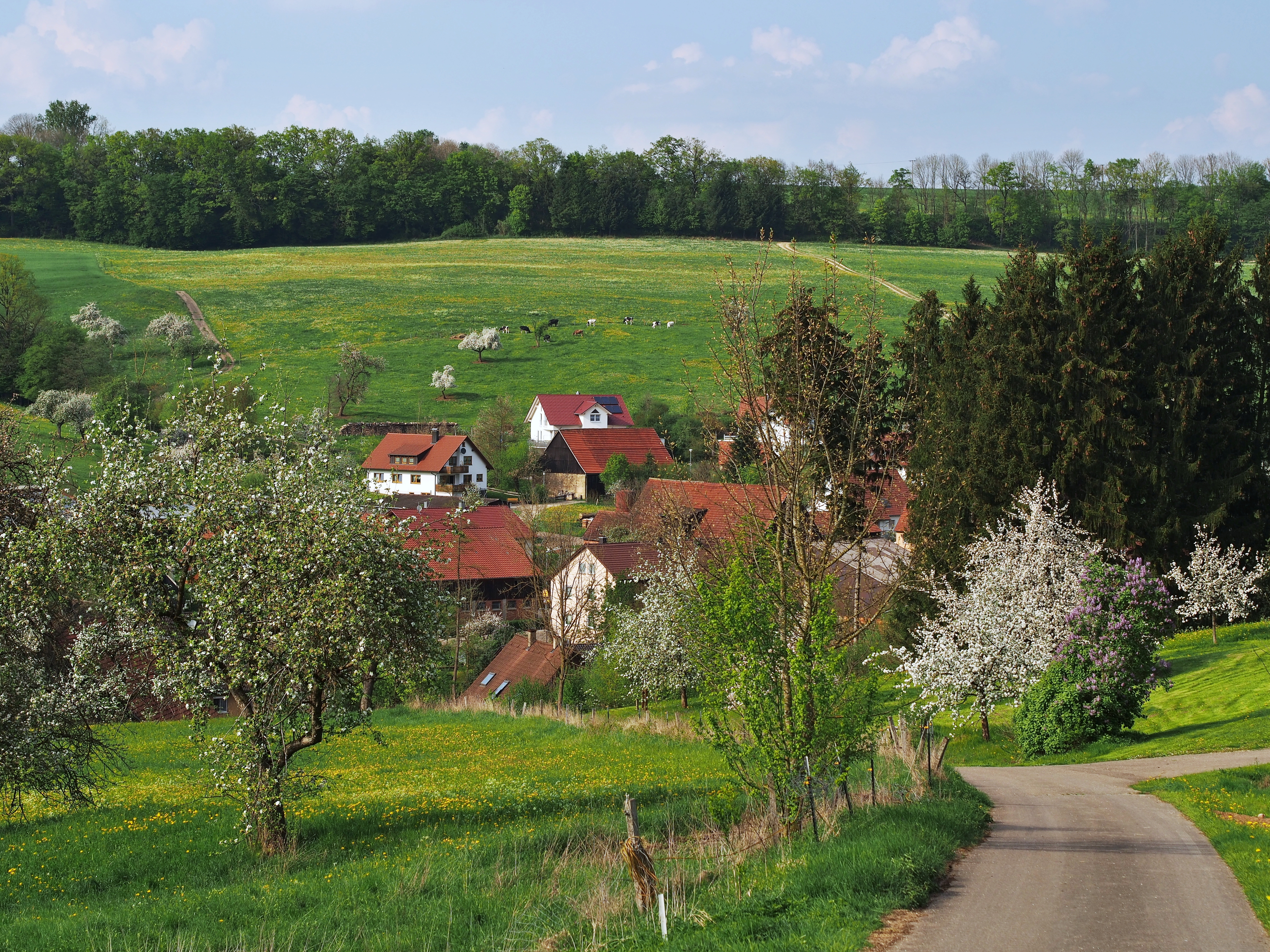 Mulfingen (component locality of Göggingen), Germany